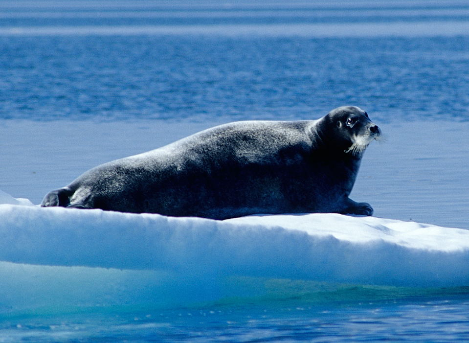 Bearded seal, Erignathus barbatus, on ice flow in Foxe Basin (near Igloolik, Nunavut, Canada)